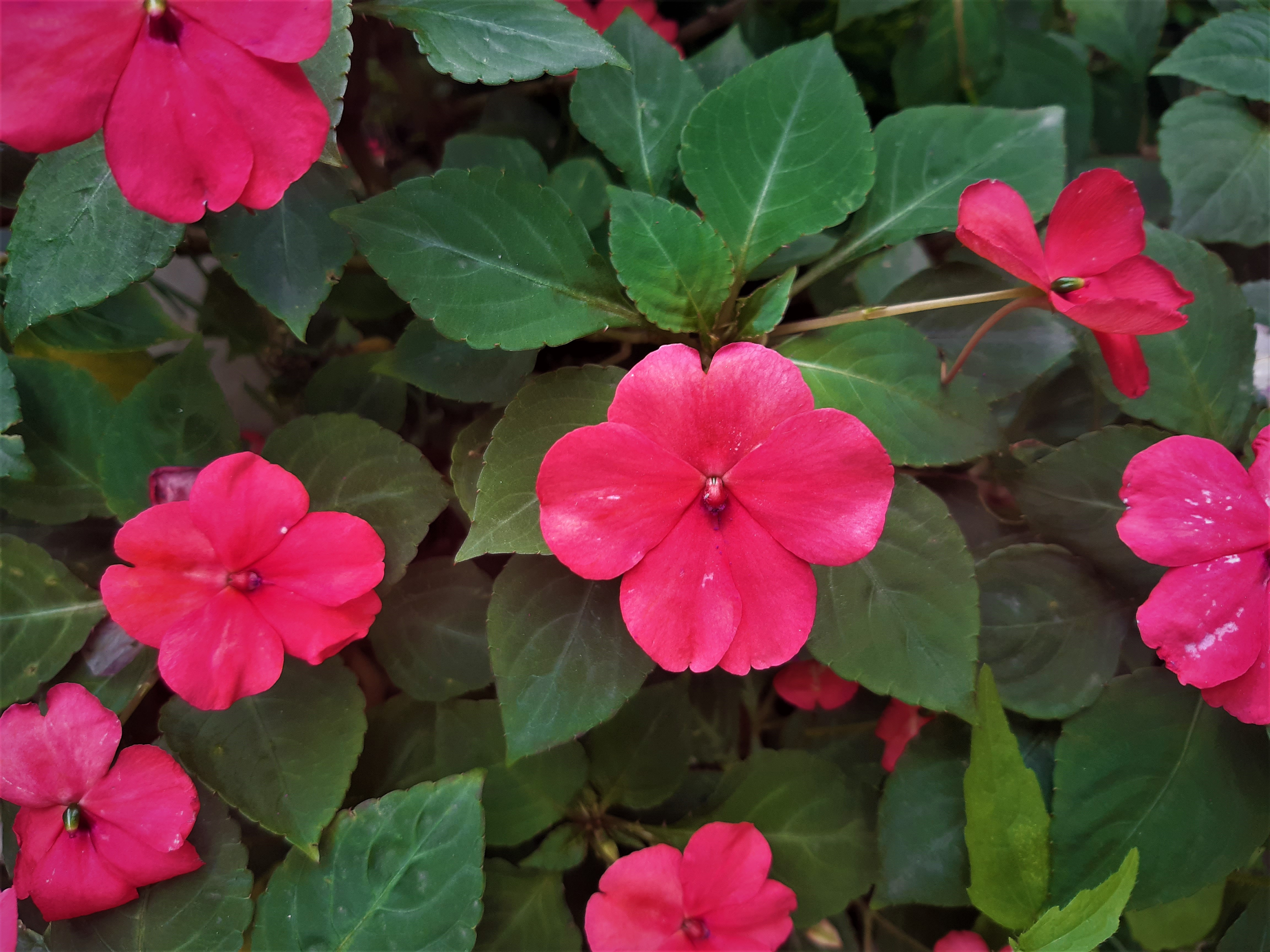 Impatiens walleriana